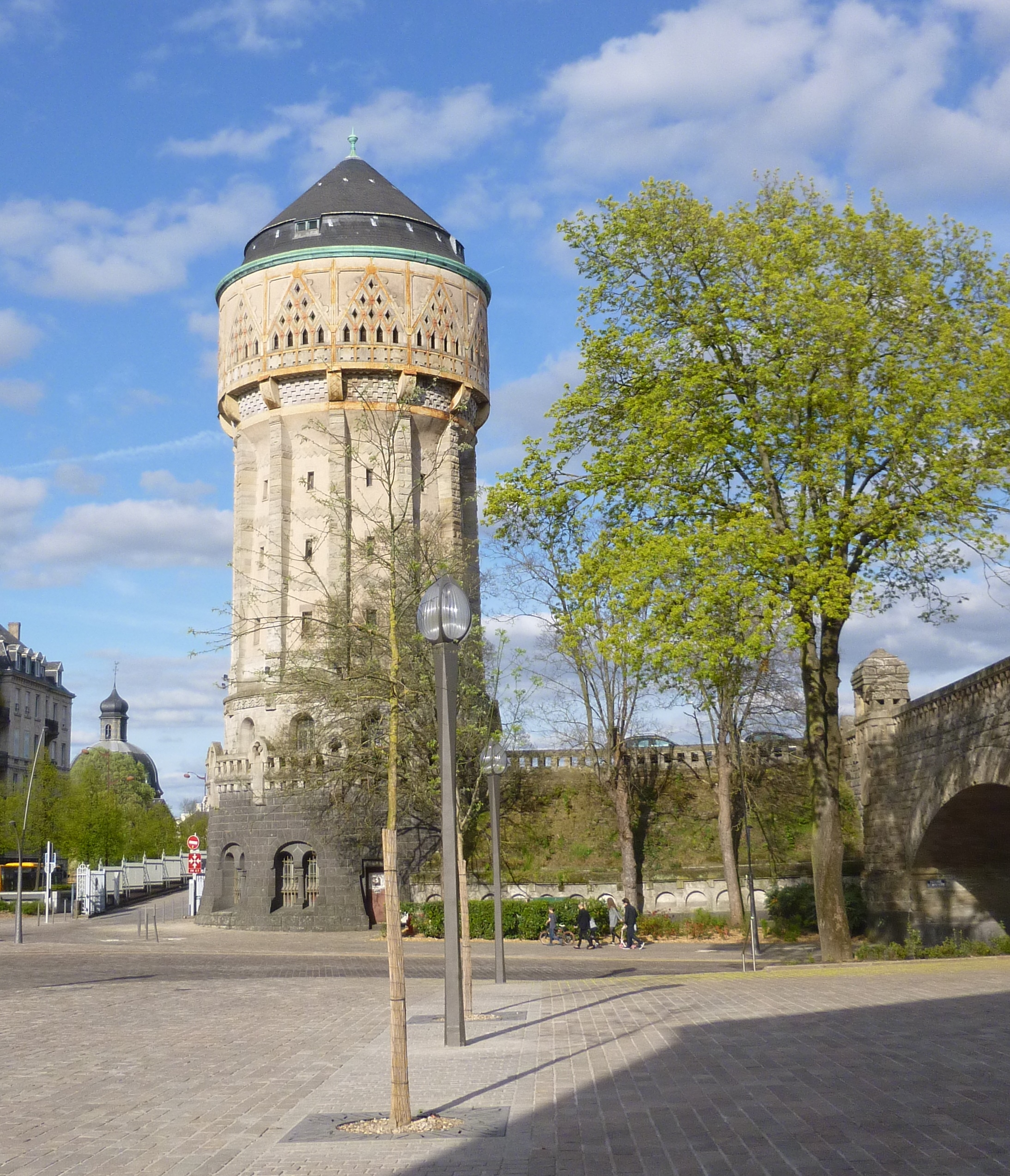 Water tower of Metz train station (Lorraine, France).